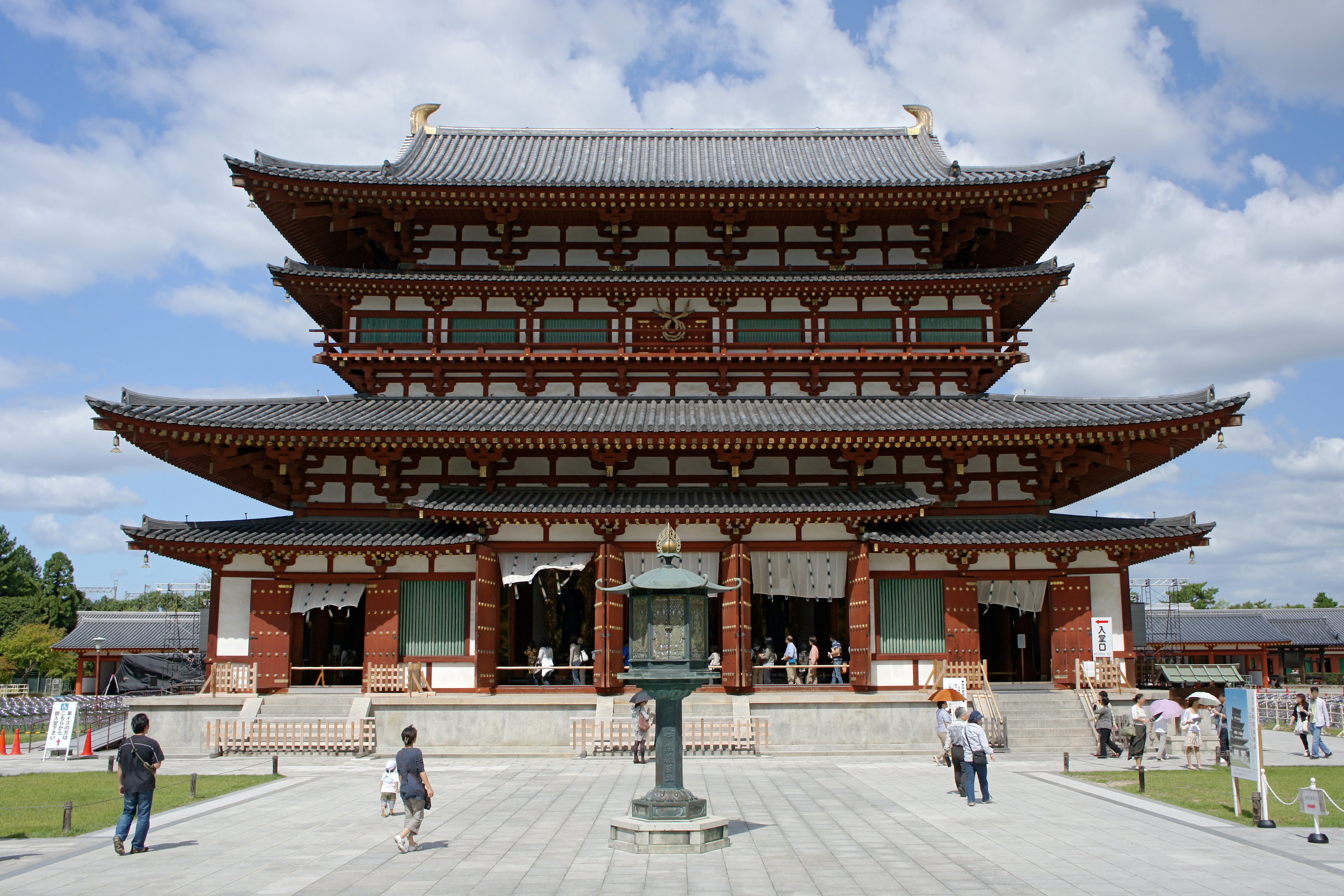 Yakushi-ji is a Buddhist temple in Nara, Nara prefecture, Japan. It was registered as part of the UNESCO World Heritage Site "Historic Monuments of Ancient Nara".